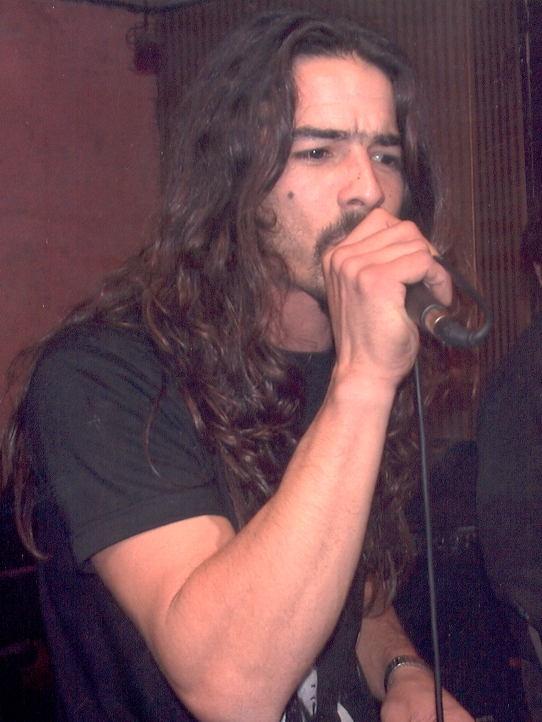 Eduardo Ezcurra singing in a show at Chivilcoy, Argentina. Year 2002.